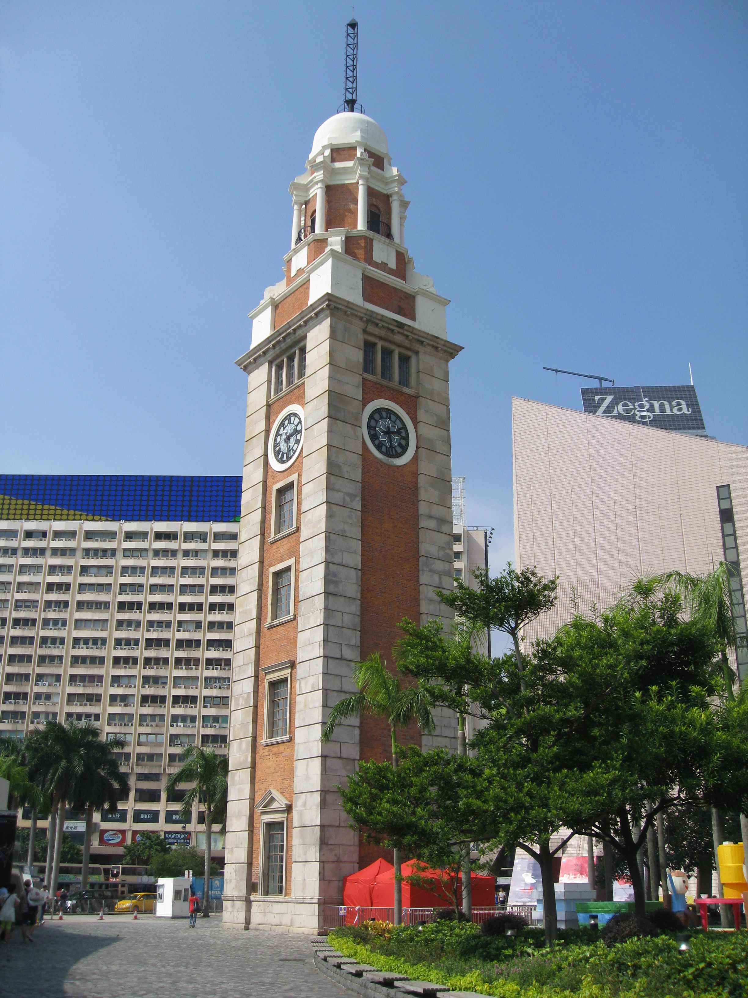 This is the other side view of the tower, facing the Culture Centre. Its front is facing the Star Ferry and Bus stop.